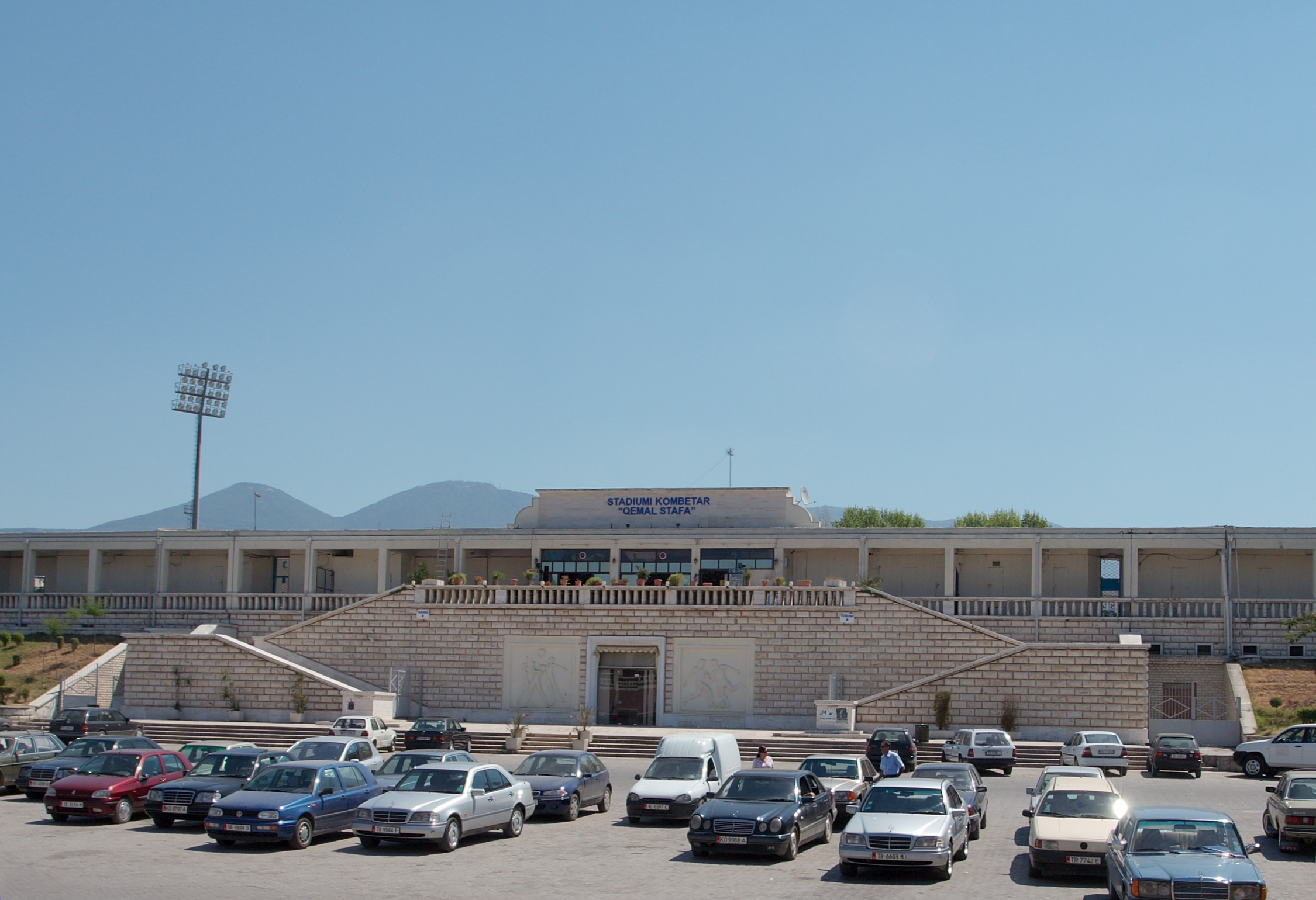 The National Stadium "Qemal Stafa", Tirana, Albania